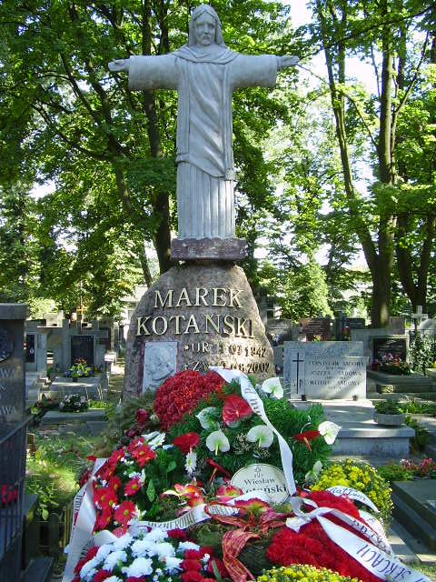 Grave of Marek Kotanski, Warsaw